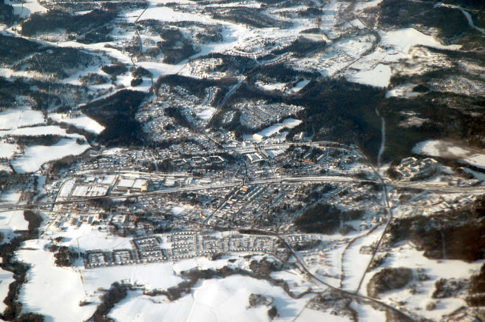 The town of Järna south of Stockholm, Sweden. Photograph by Henryk Kotowski in February 2007.